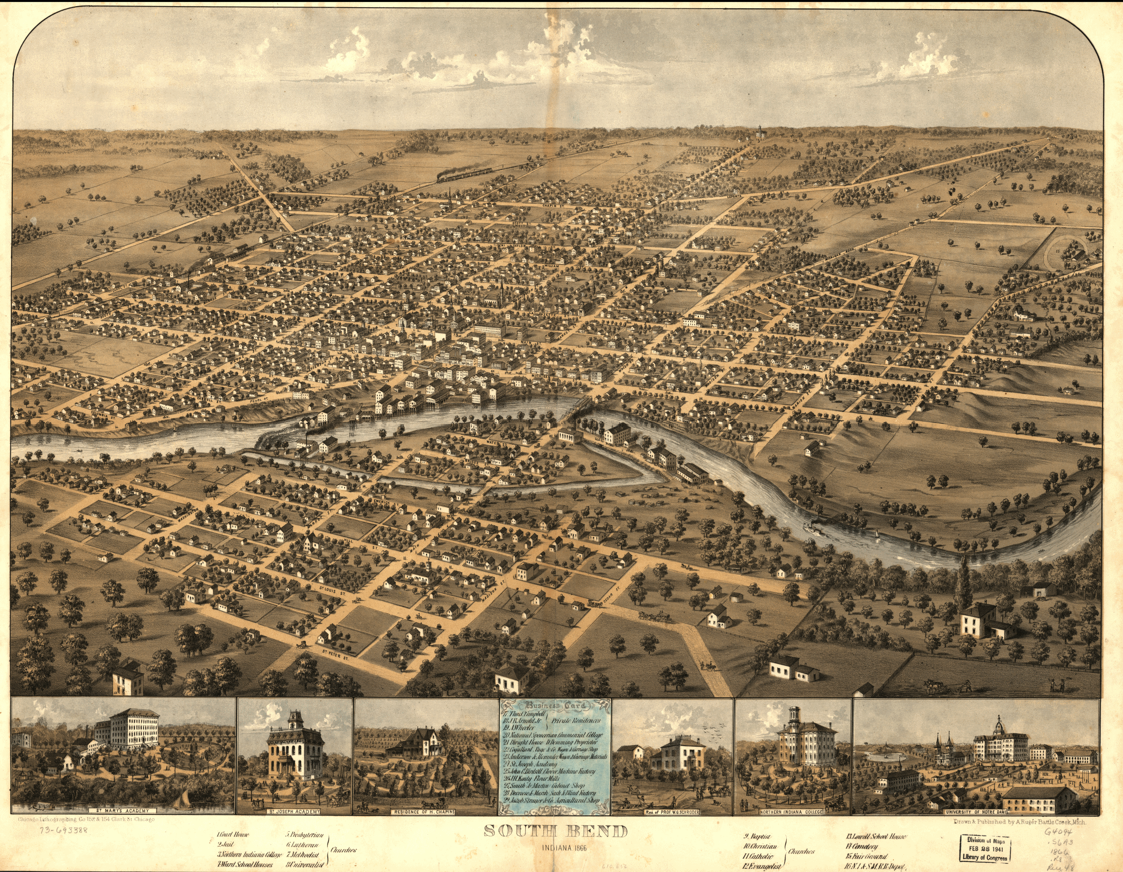 Bird's eye view of South Bend in 1866